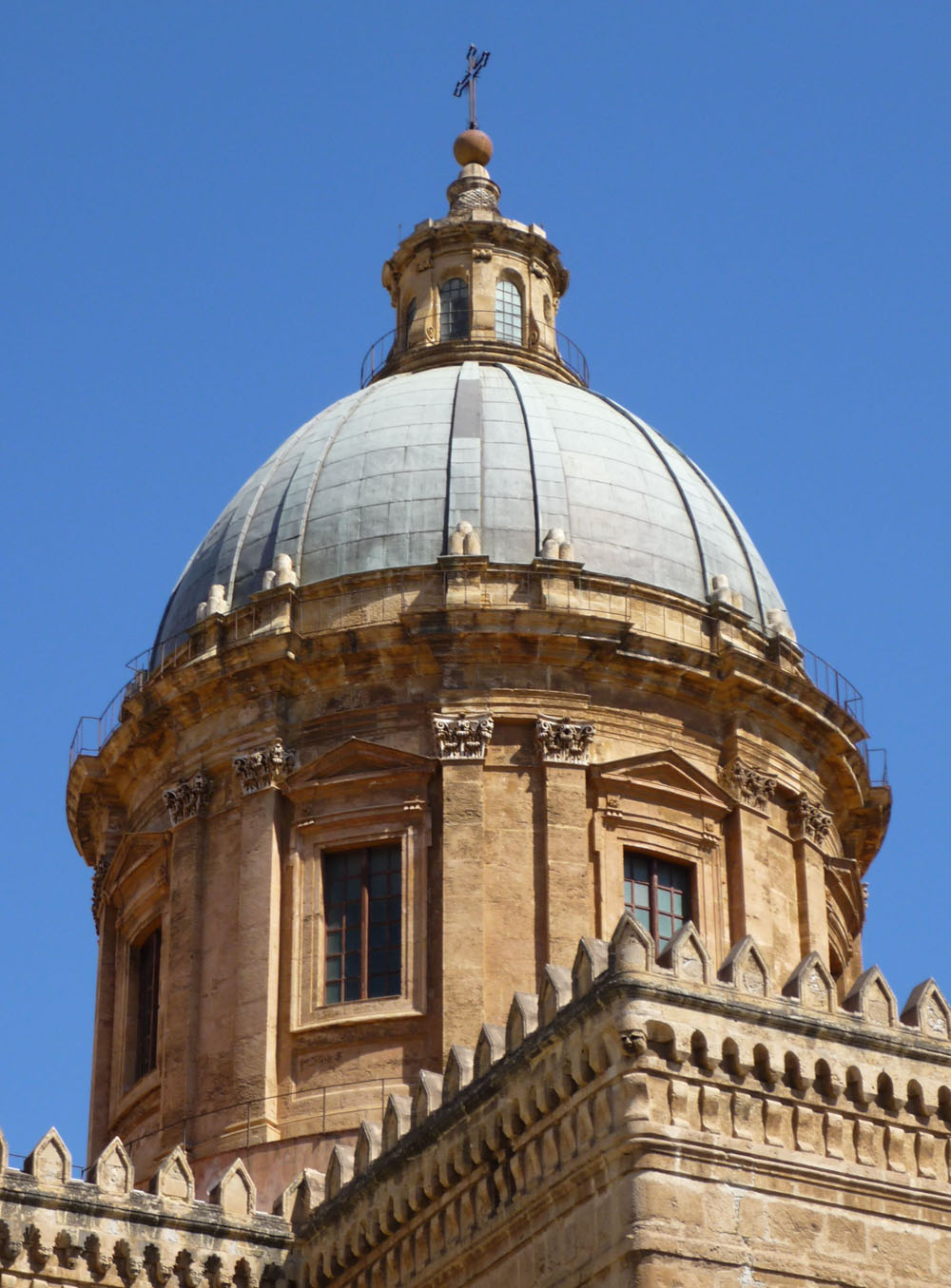 Dome of the Palermo cathedral